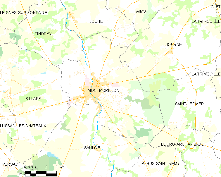 Map of French municipality Montmorillon